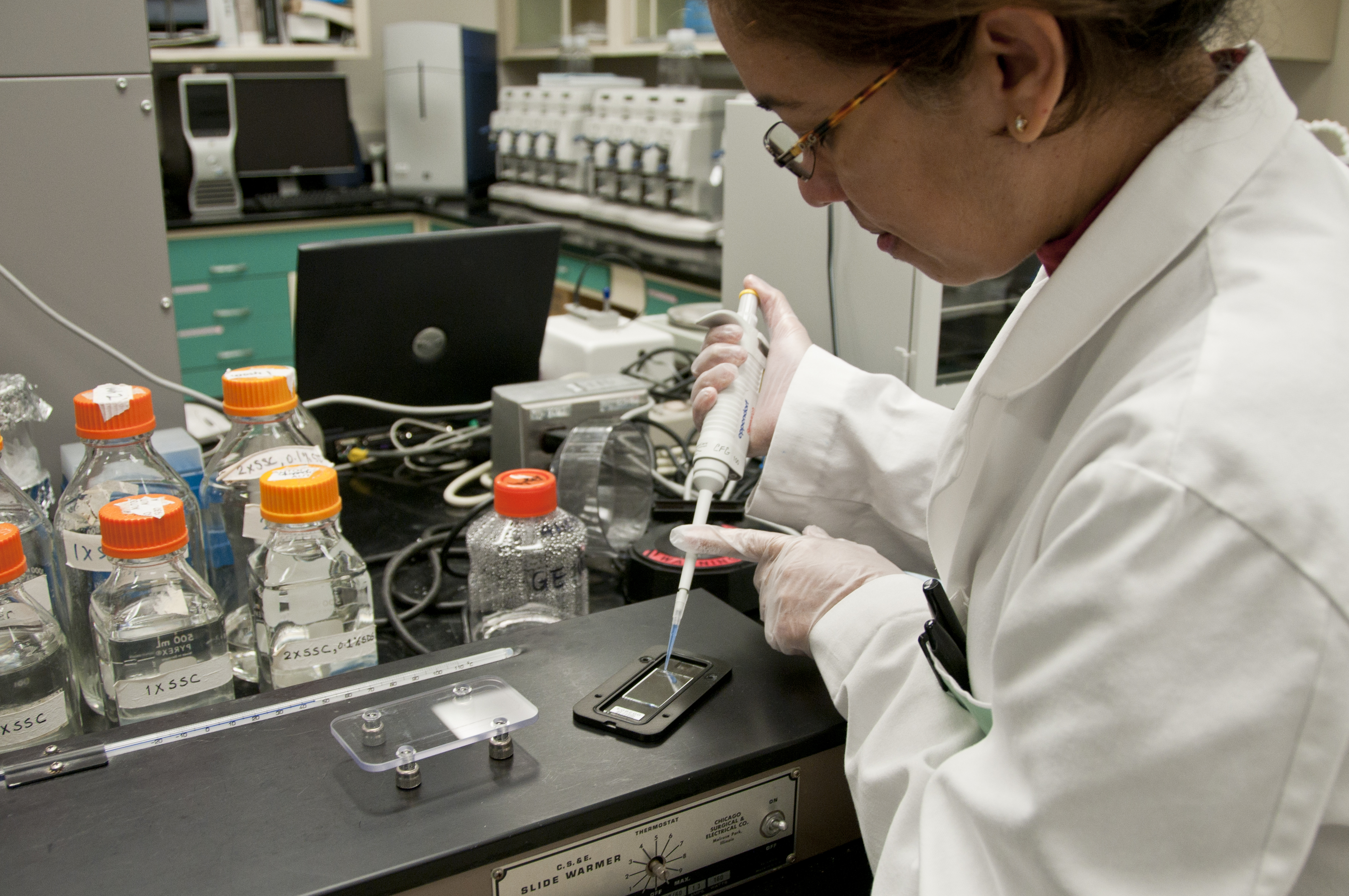 NCTR Scientist developing custom microarray (i.e. MitoChip). The National Center for Toxicological Research (NCTR) is FDA's internationally recognized research center. The unique scientific research expertise of NCTR is critical in supporting FDA product centers and their regulatory science roles. For more about NCTR, read the Consumer Update at FDA photo by Michael J. Ermarth